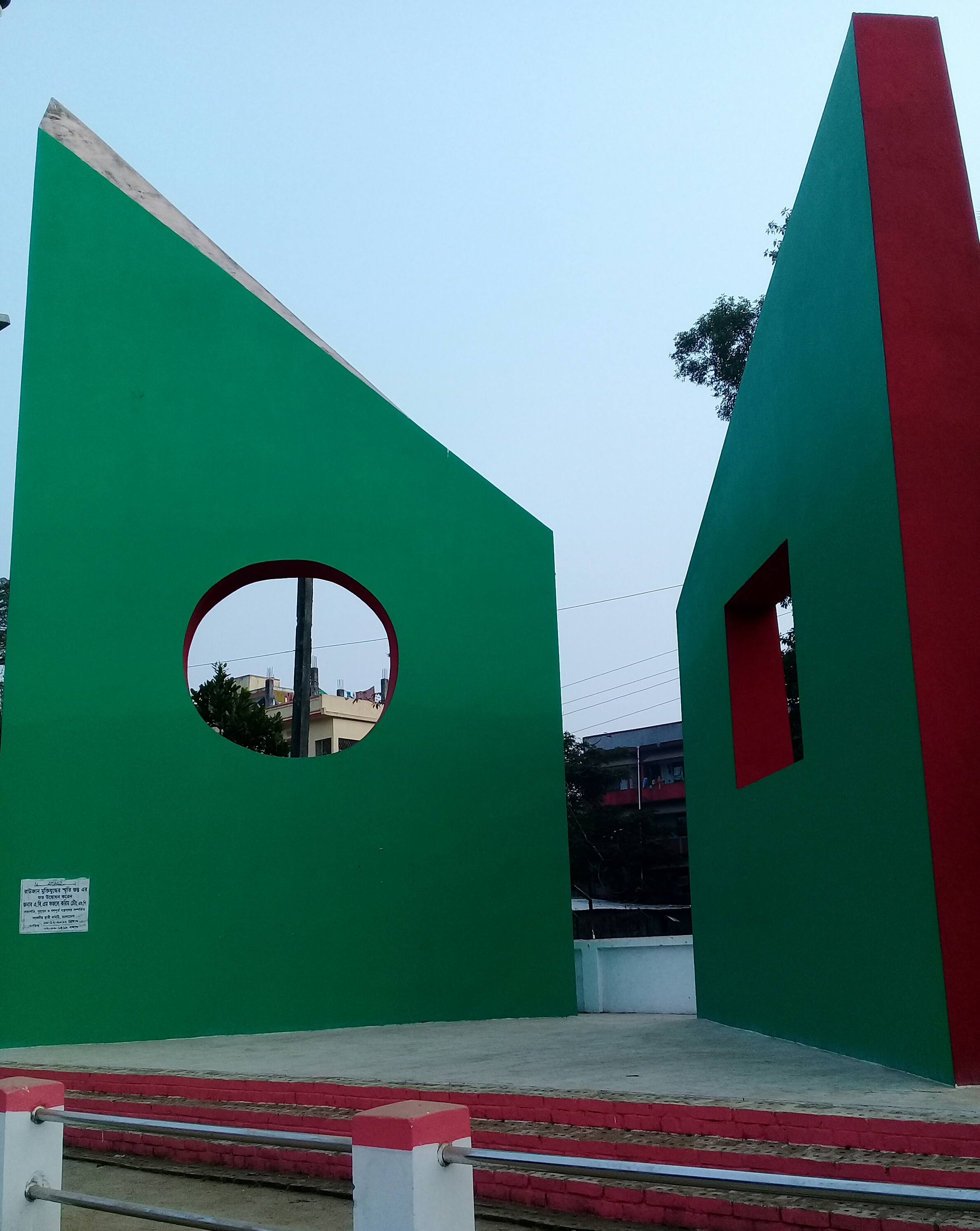 Raozan Monument Picture